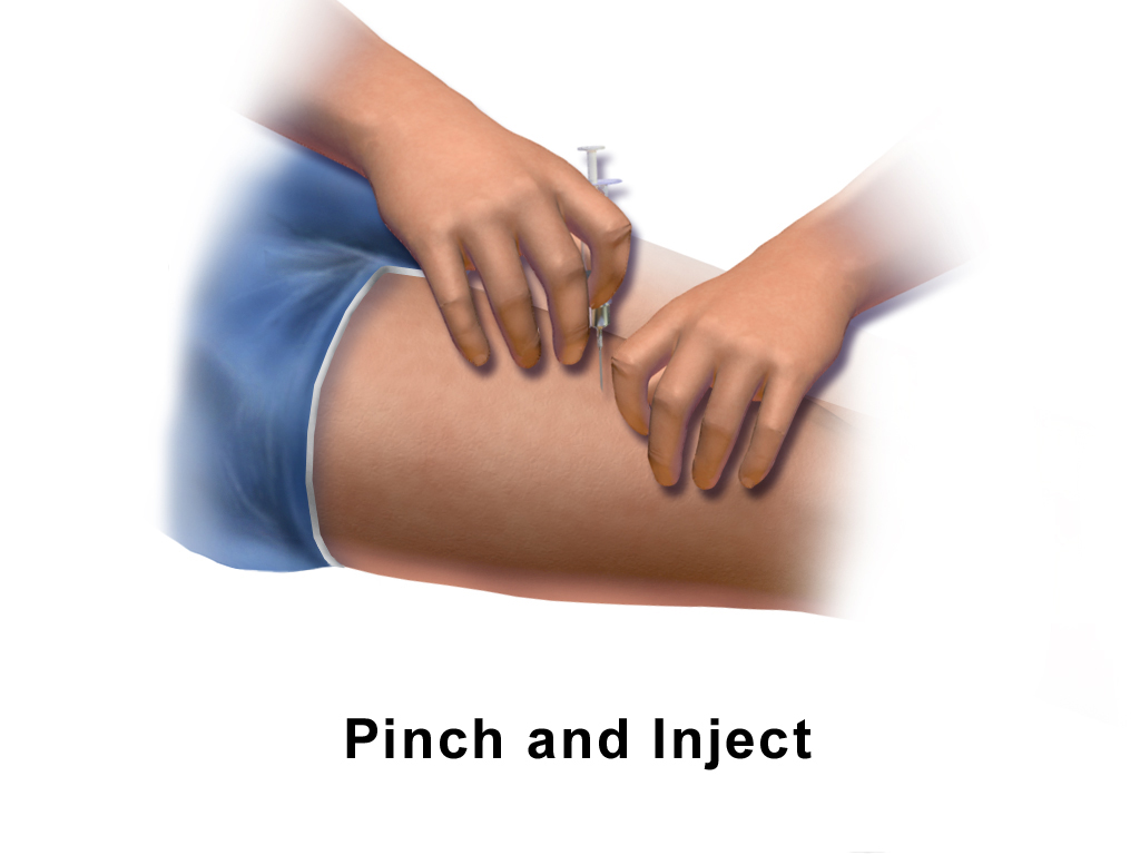 A medical illustration depicting how to pinch and inject insulin.